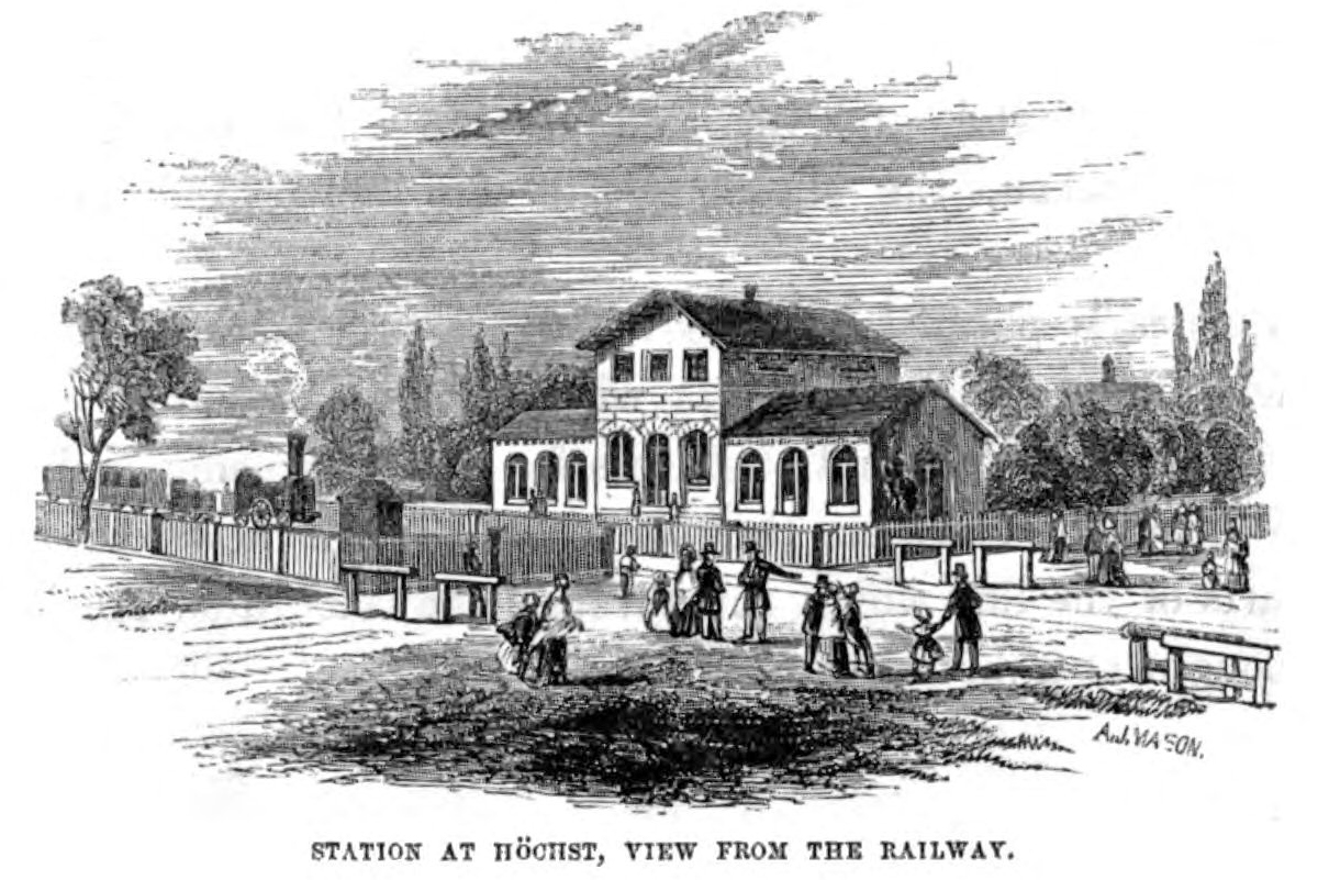 Höchst train station in 1846. The station was built in 1839 and replaced in 1880 by a new building